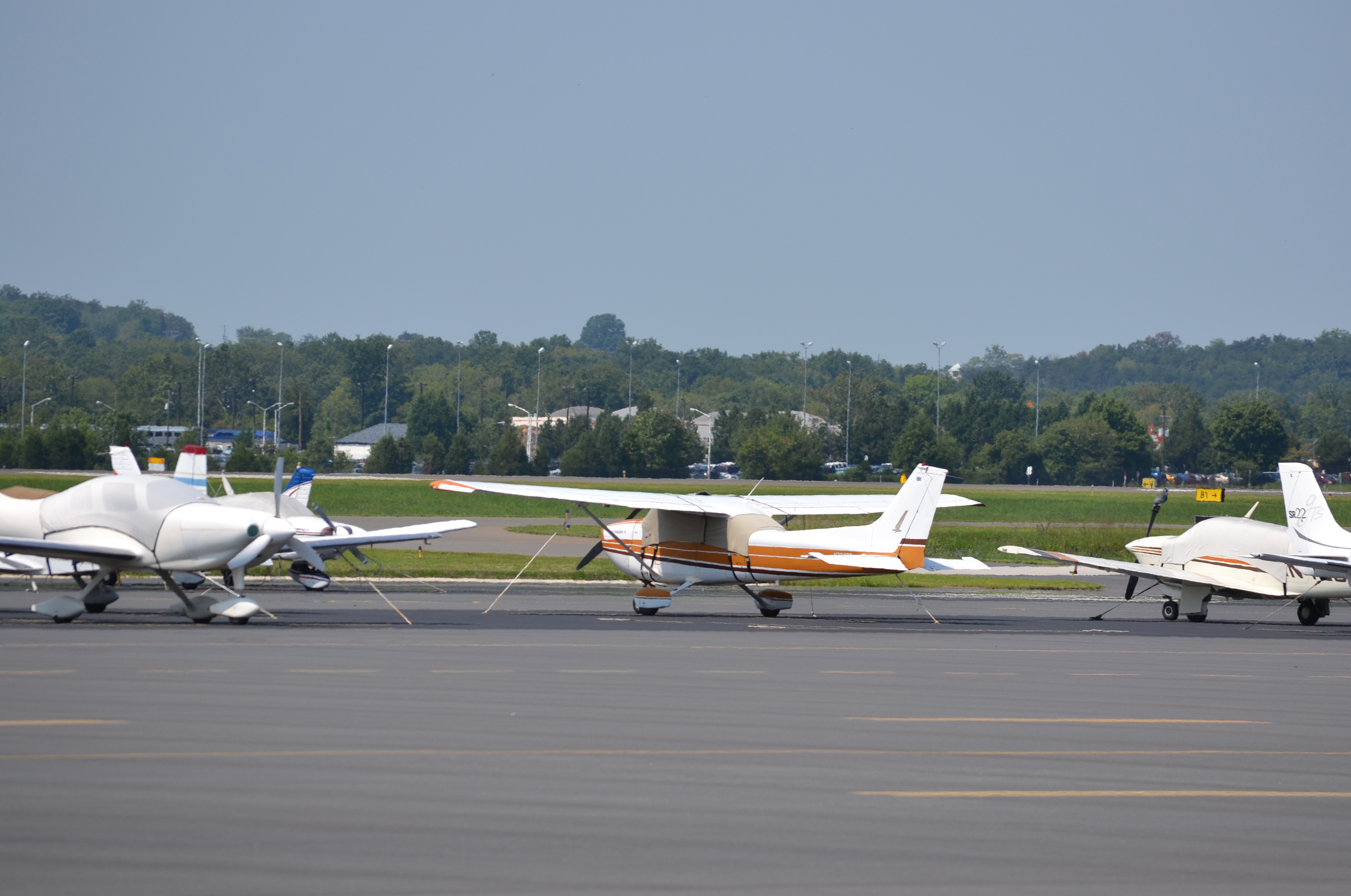 Airplanes at Manassas Regional Airport